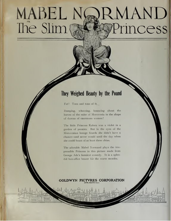 Mabel Normand in The Slim Princess (1920) directed by Victor Schertzinger.